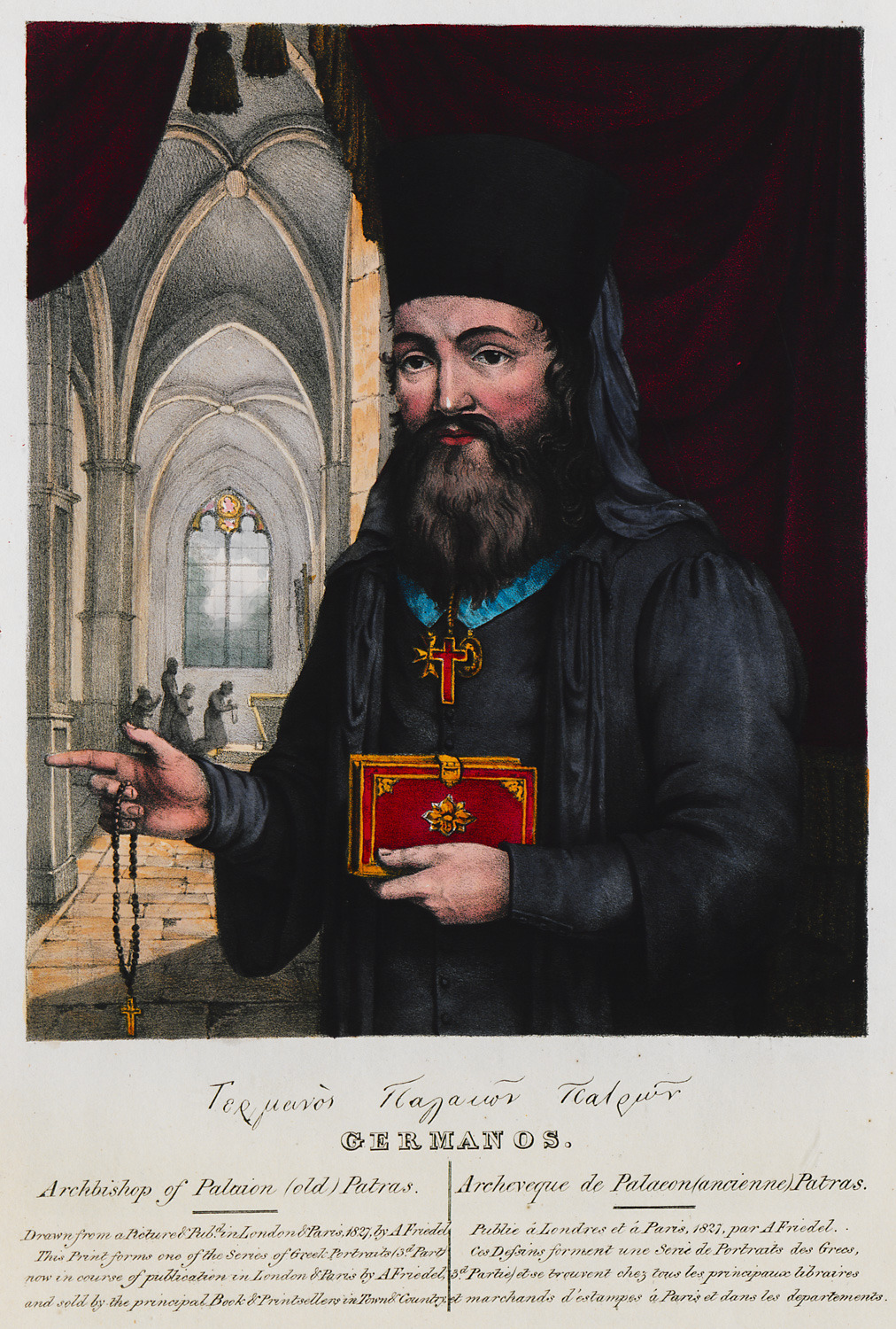 Adam de Friedel. The Greeks, Twenty-four Portraits of the principal Leaders and Personages who have made themselves most conspicuous in the Greek Revolution, from the Commencement of the Struggle, London, Adam de Friedel, 1830.